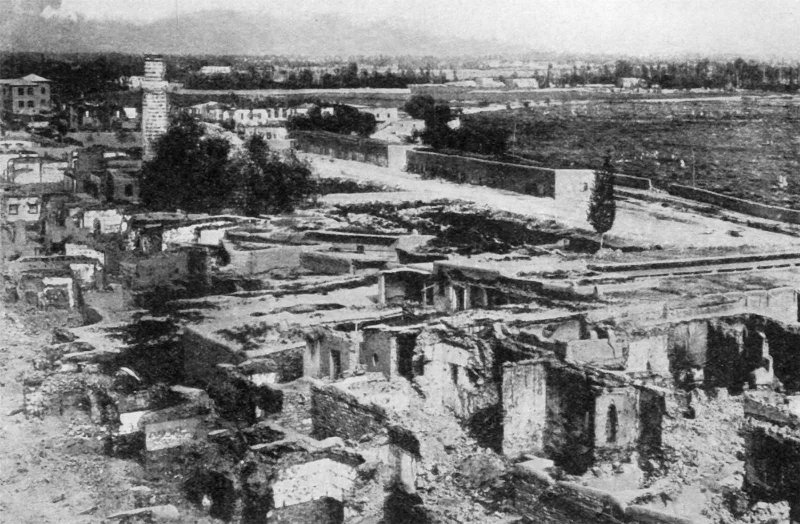 City of Van after the Siege of Van.